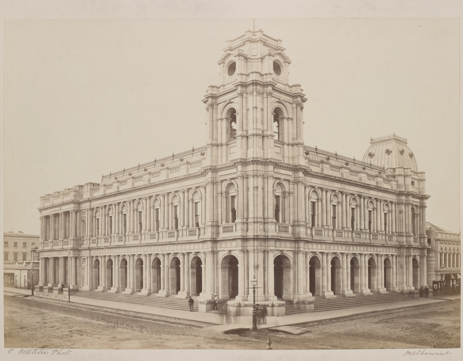 Melbourne General Post Office, 1868. Albumen silver photograph; 28 x 33.5 cm. Photographed by Charles Nettleton (1826-1902).